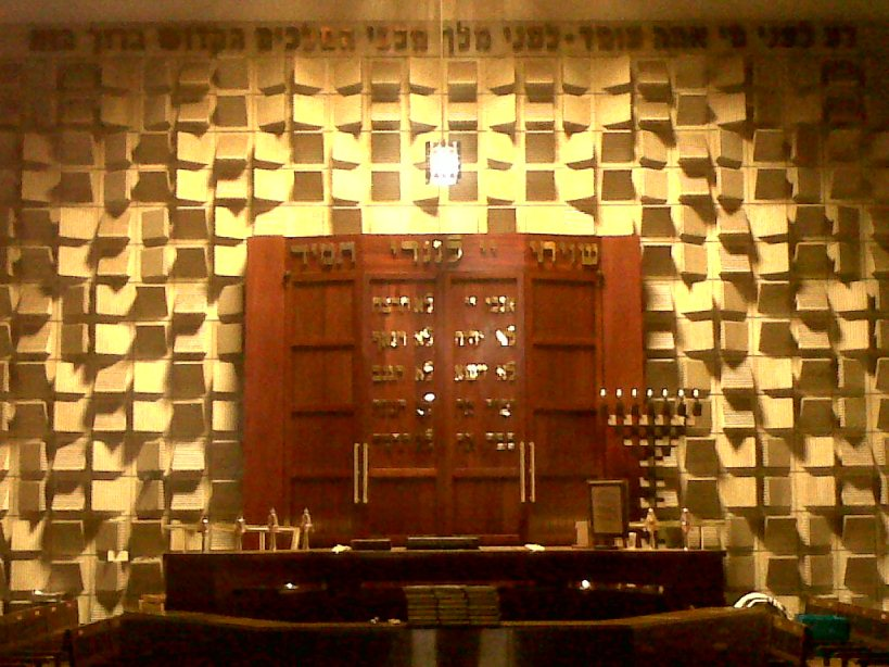 Torah Ark of Bet-El Synagogue in Caracas, VenezuelaLadino: Ehal de la Esnoga Bet-El, en la sivdad de Karakas, Venezuela